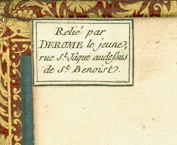 Style: Dentelle|Lyre|Shell motif|Floral; Caption: Ticket; Colour: Red; Edge: Gilt